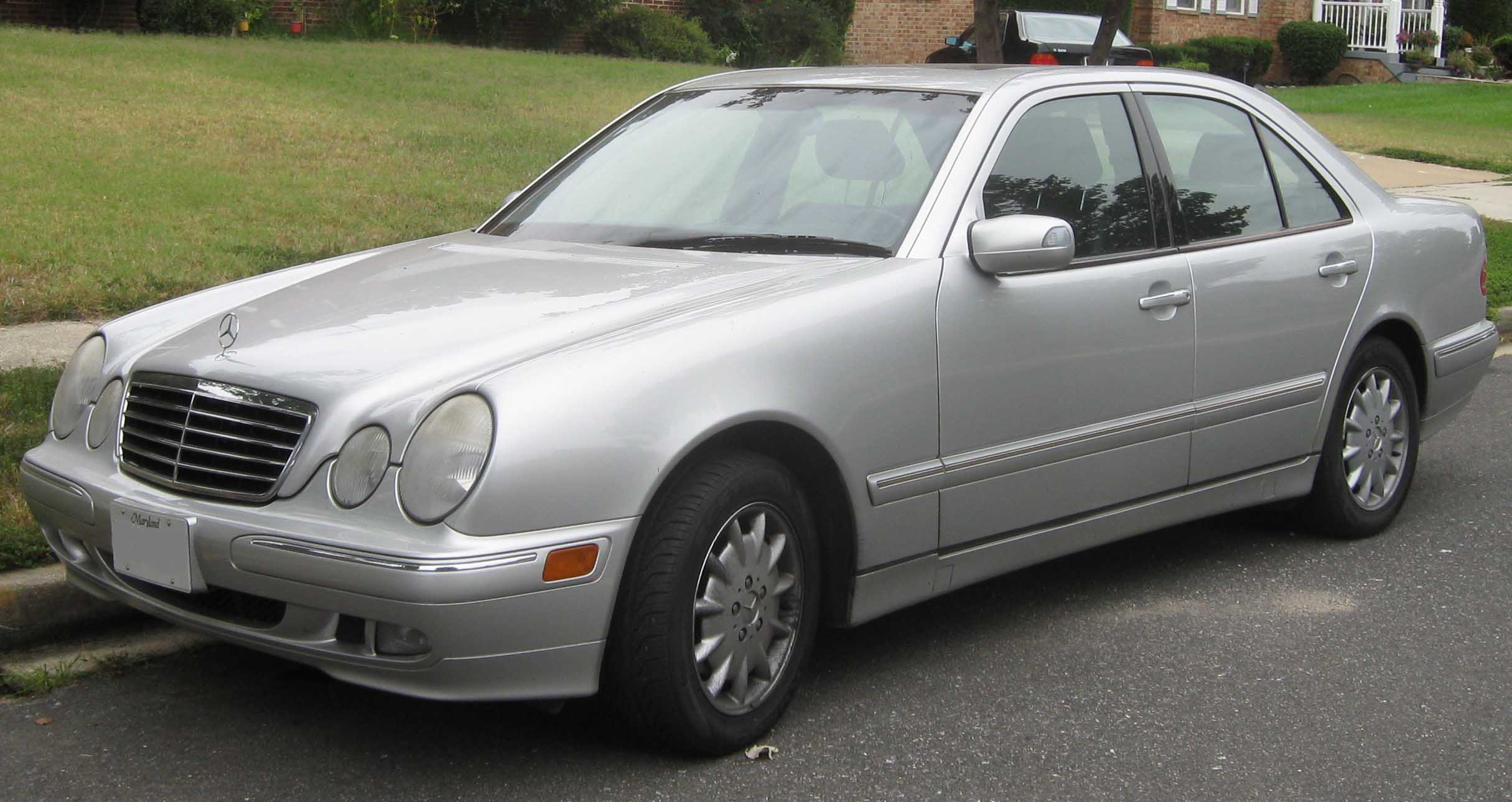 Mercedes-Benz W210 photographed in Fort Washington, Maryland, USA.